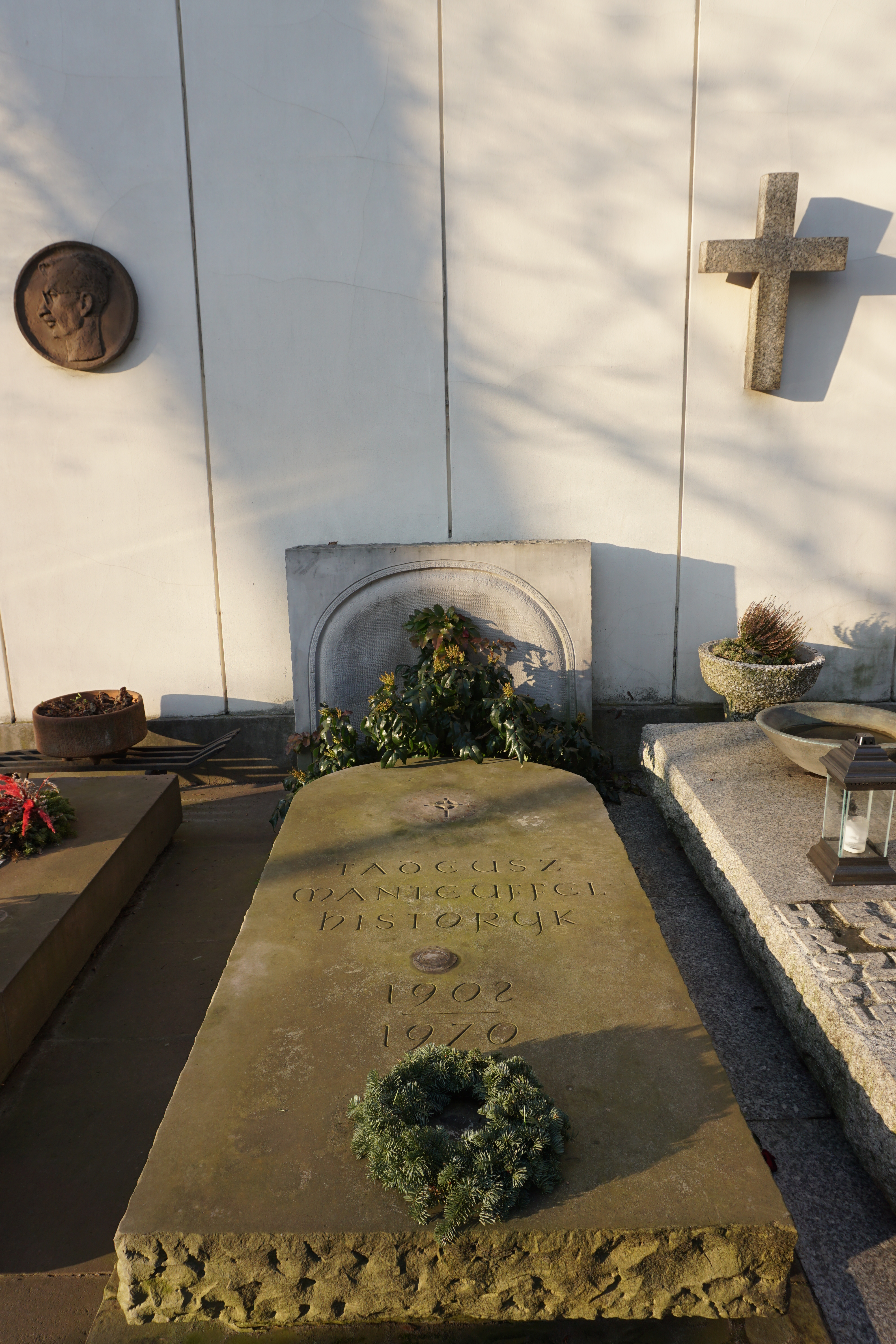 The grave of Tadeusz Manteuffel at the Powązki Cemetery (Avenue of Deserved, grave 149)